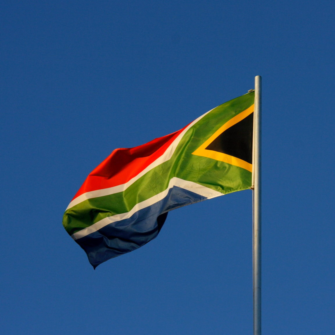 Or this a photo of a flag. Maybe. Too much time with Yoda I am spending.